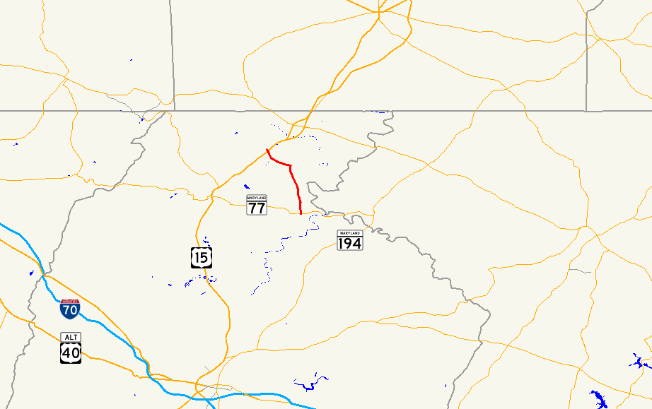 Map of Maryland Route 76